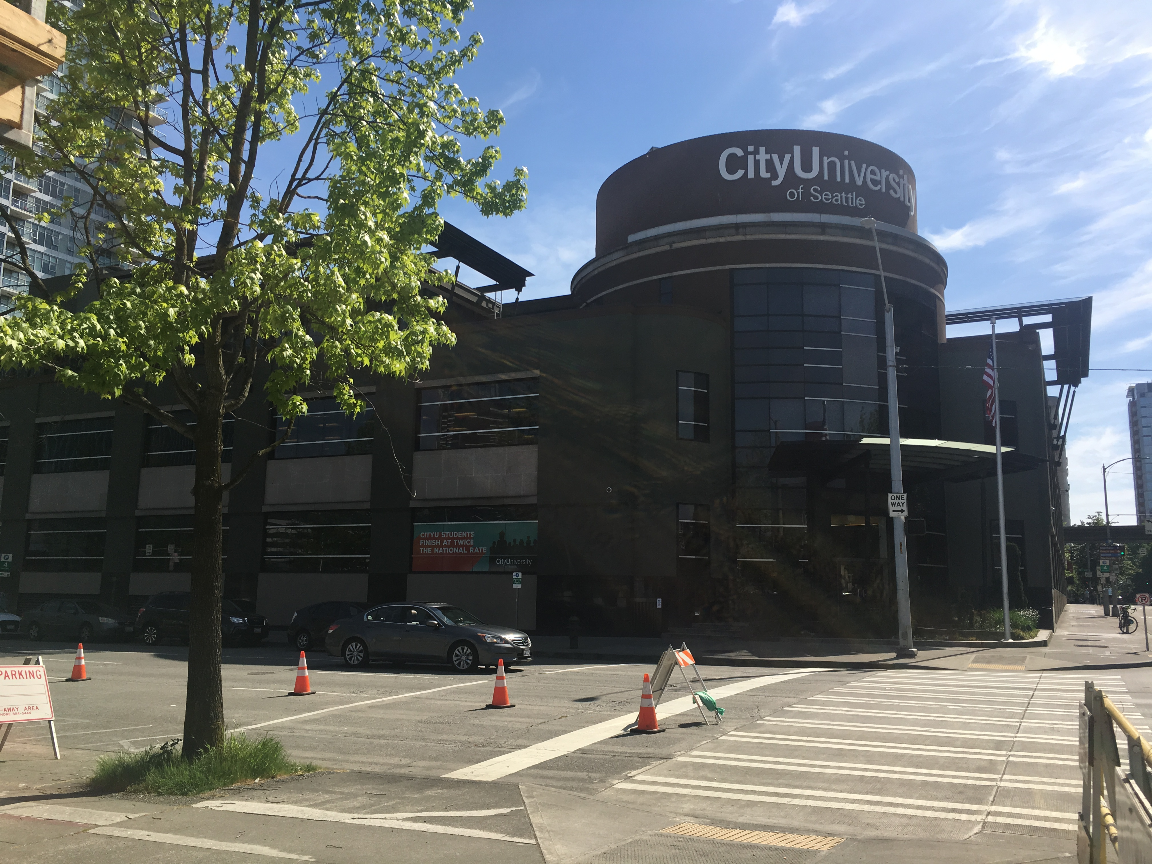 City University of Seattle